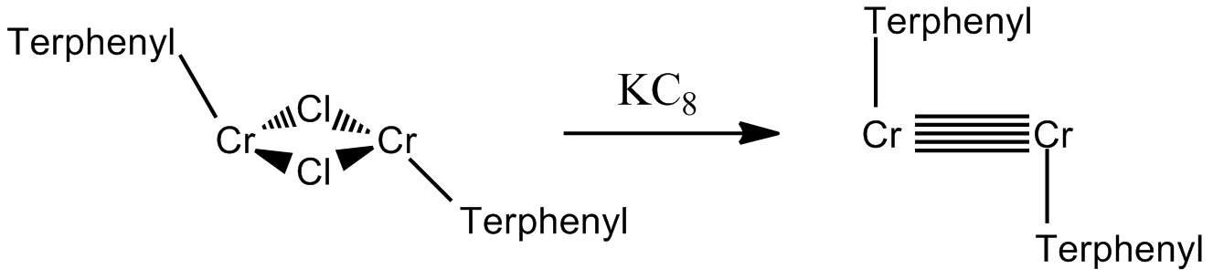 Scheme of a quintuple bond synthesis.